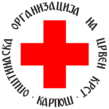 Official logo of the oragnisation od Red cross Karposh